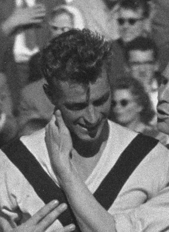 Sjaak Brokx in 1959.